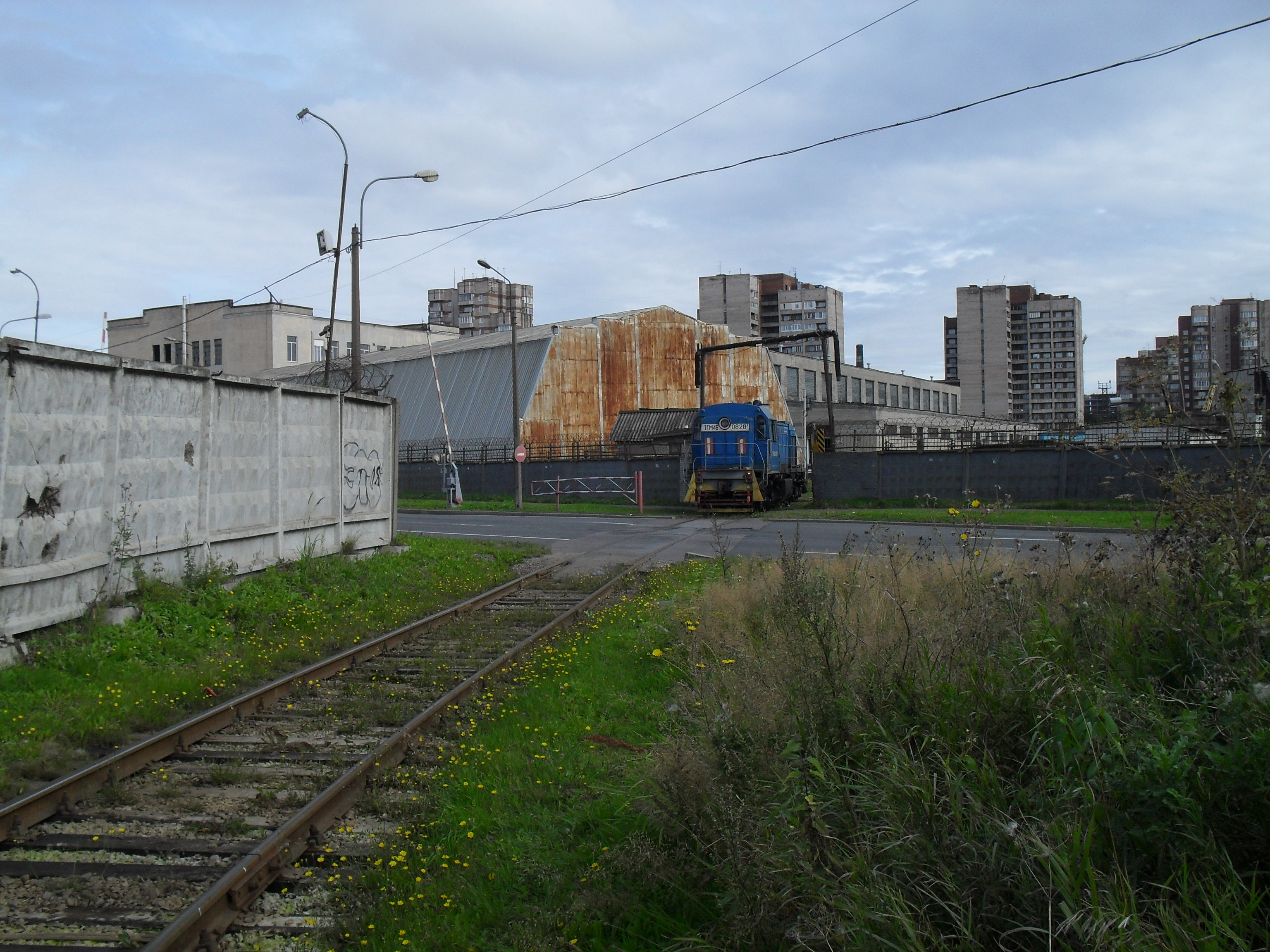 Novy Port railway station